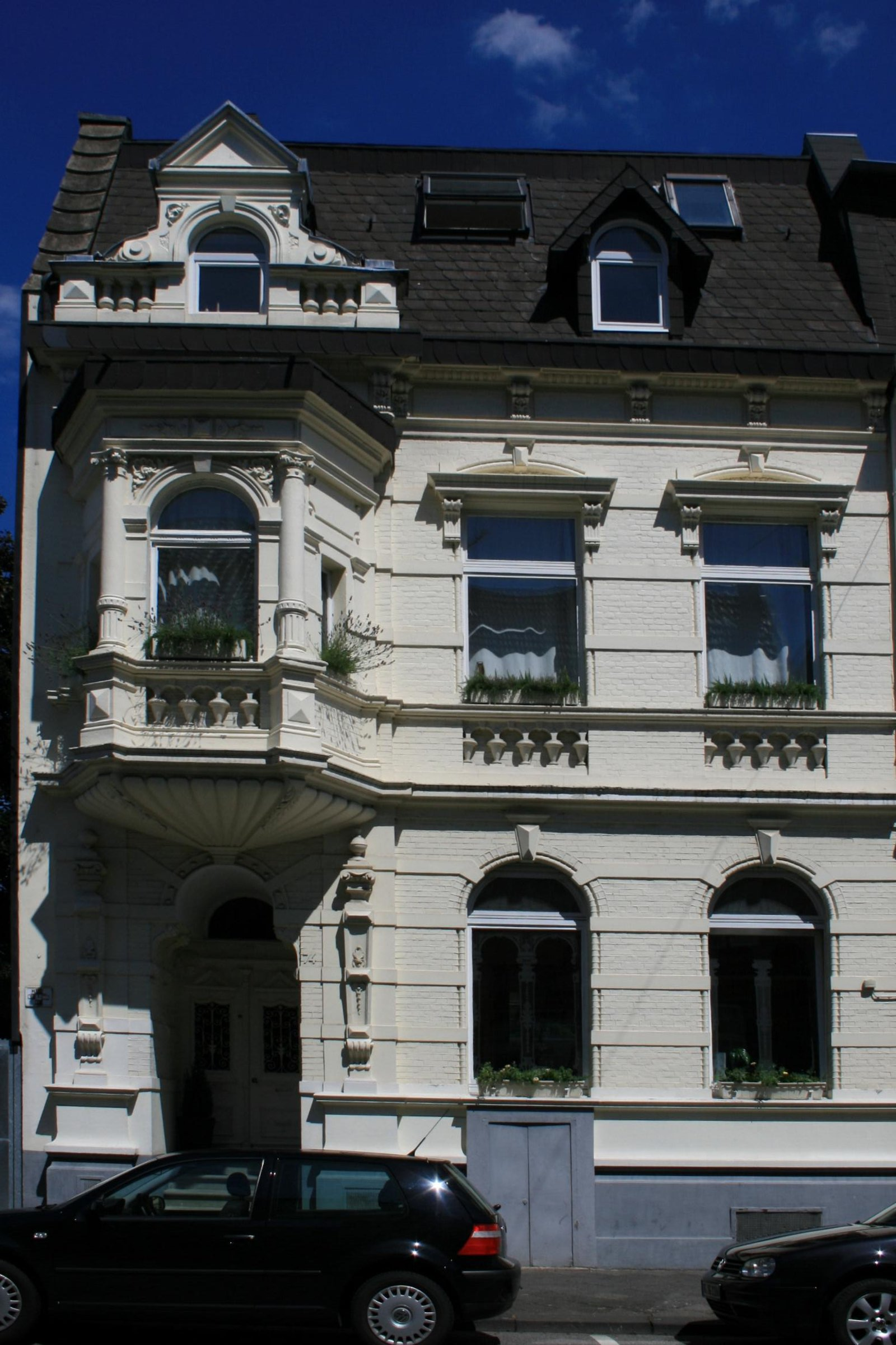 Cultural heritage monument No. H 076 in Mönchengladbach